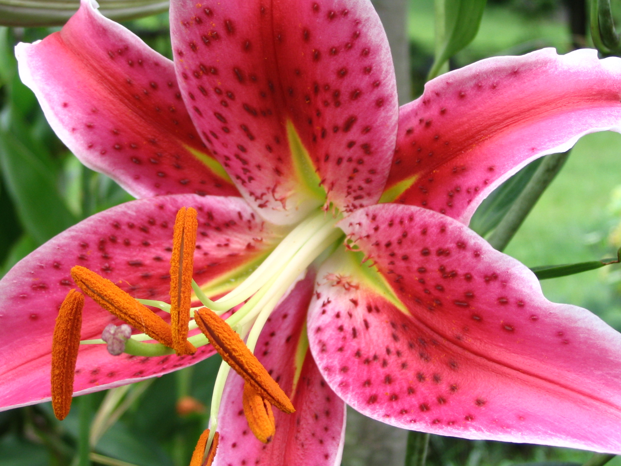 Lilium Orientalis, or the Stargazer Lily. Photographed by Steve Karg in Mimi Soileau's backyard.